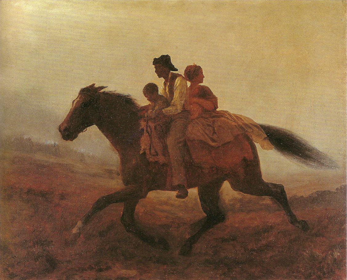 Eastman Johnson - A Ride for Liberty -- The Fugitive Slaves - Oil on paperboard - 22 × 26.25 in - about 1862 - Scanned from Eastman Johnson: Painting America - fig 74 - pg 137